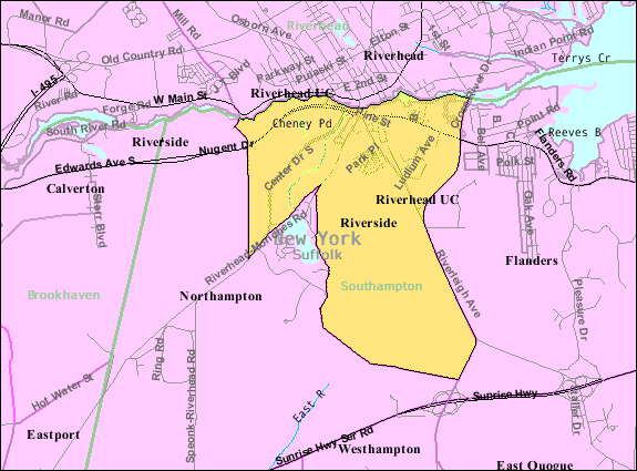 U.S. Census 2000 reference map for Riverside